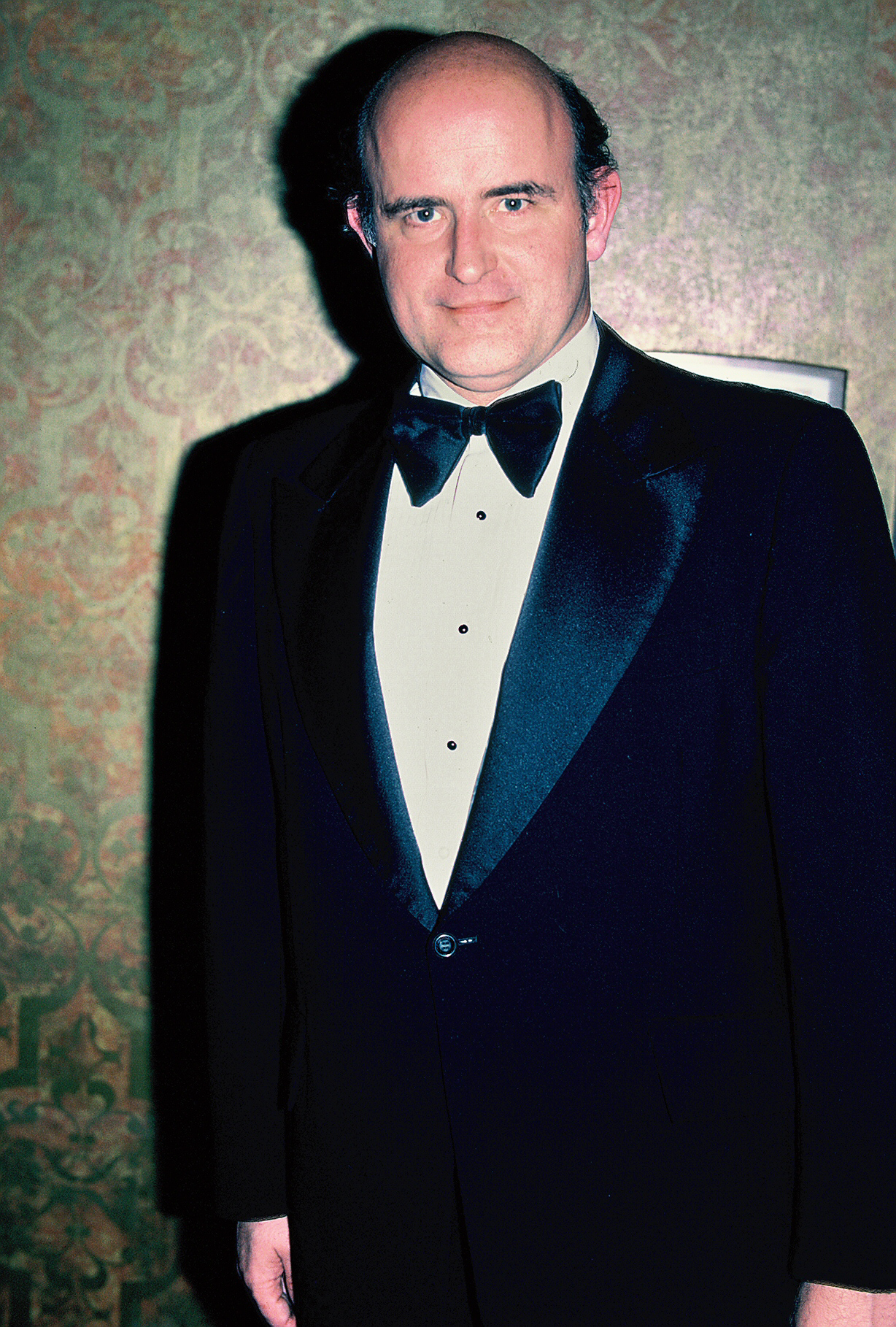 Peter Boyle at the premiere of Sylvester Stallone's movie F.I.S.T., April 1978